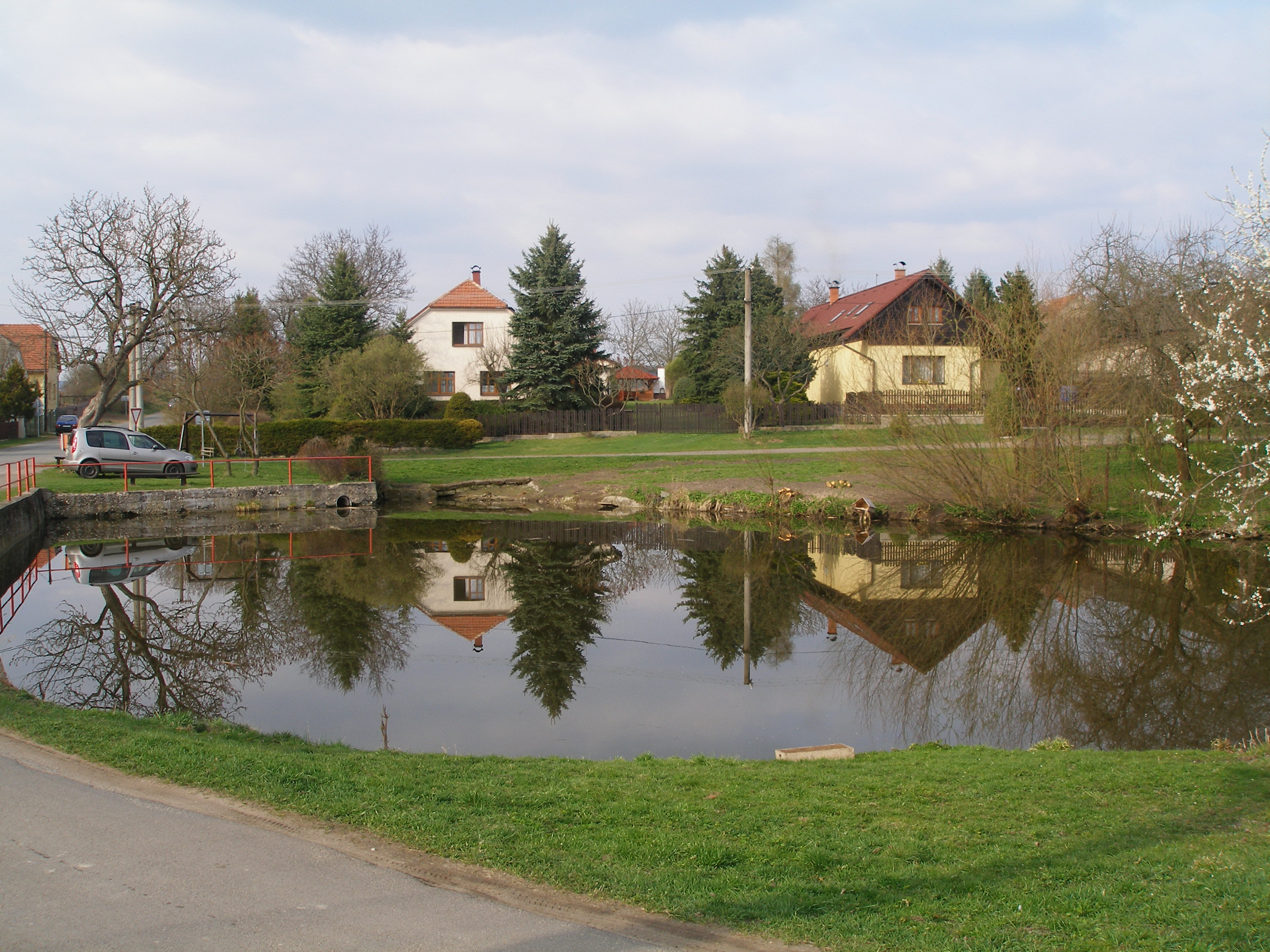 Village square in Lítkovice.